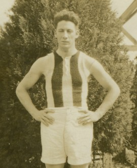 Photograph of Bill Sneazwell from 1926-1928